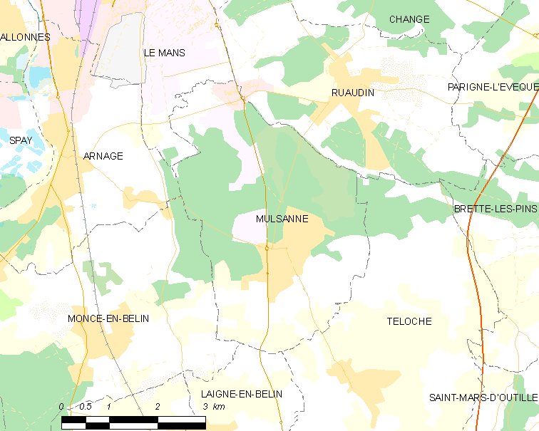 Map of French municipality